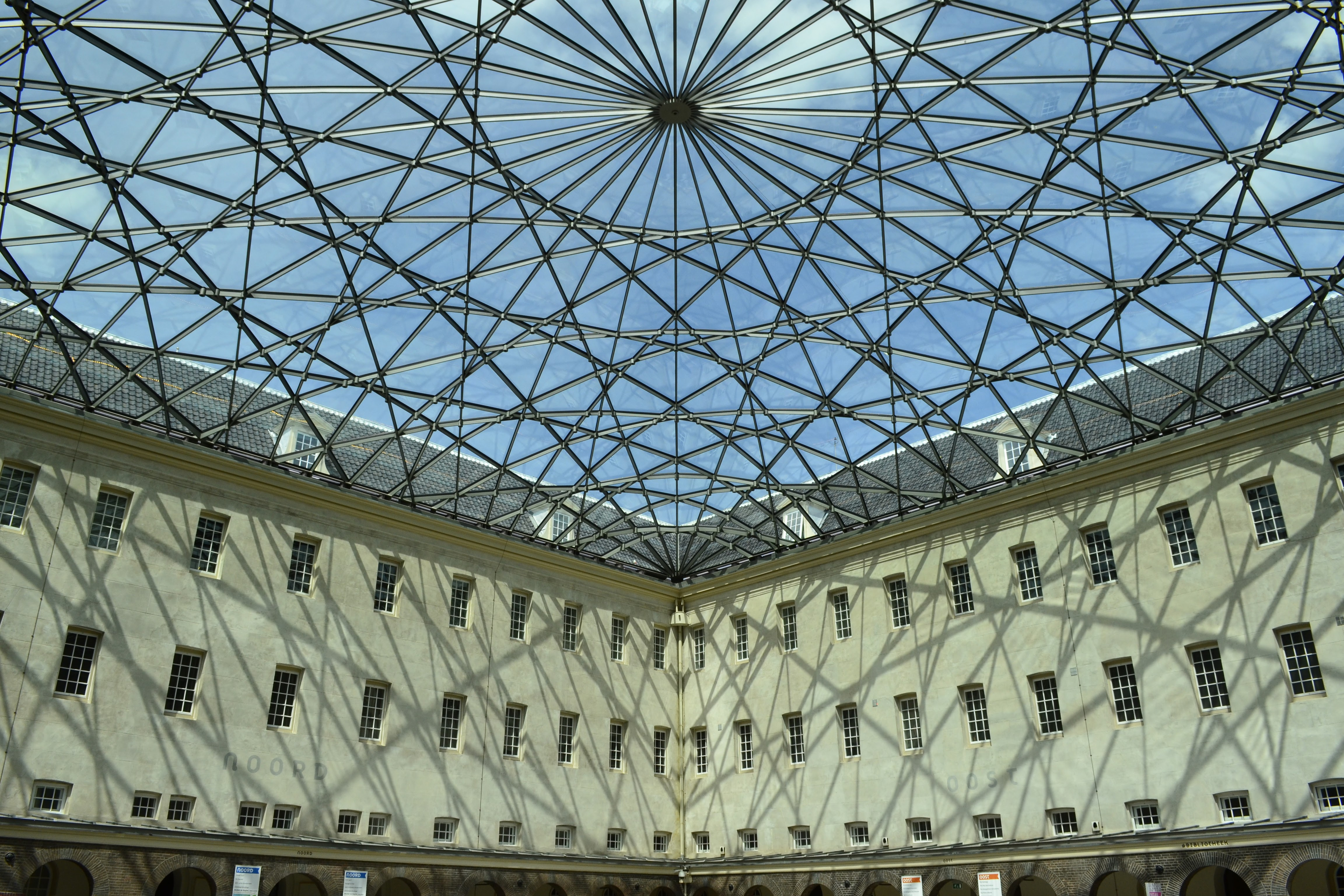 The glass roof of the courtyard inspired by the compass rose on nautical maps